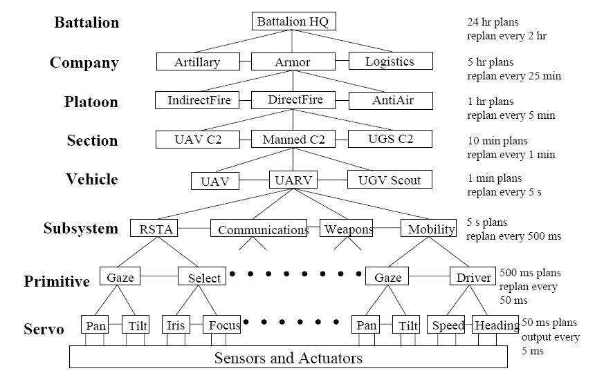 A high level block diagram of a typical 4D/RCS reference model architecture. Commands flow down the hierarchy, and status feedback and sensory information flows up. Large amounts of communication may occur between nodes at the same level, particularly within the same subtree of the command tree. UAV = Unmanned Air Vehicle, UARV = Unmanned Armed Reconnissance Vehicle, UGS = Unattended Ground Sensors